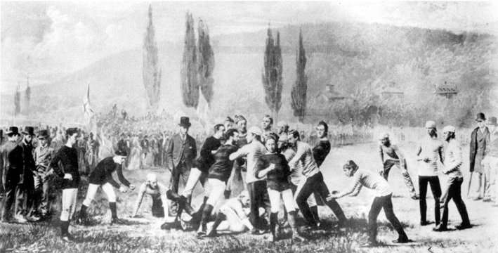 McGill Redmen v. Harvard Crimson college football game on the lower campus of McGill, 1874. Harvard players are on the left and McGill players are on the right.